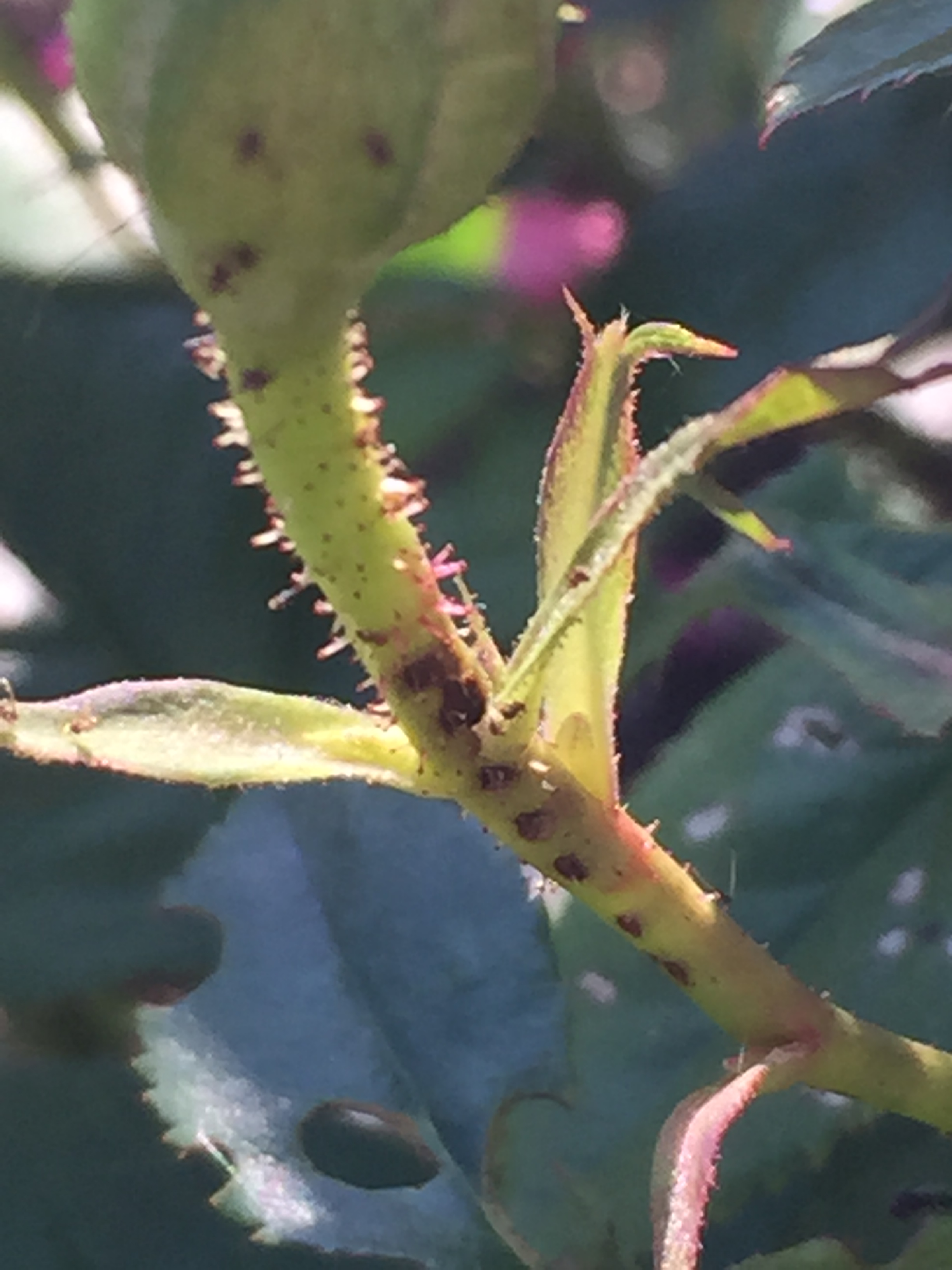 Females of Arge ochropa (Gmelin) pierce the shoot of a newly emerged flower bud because this portion is softer than any other part of the plant.